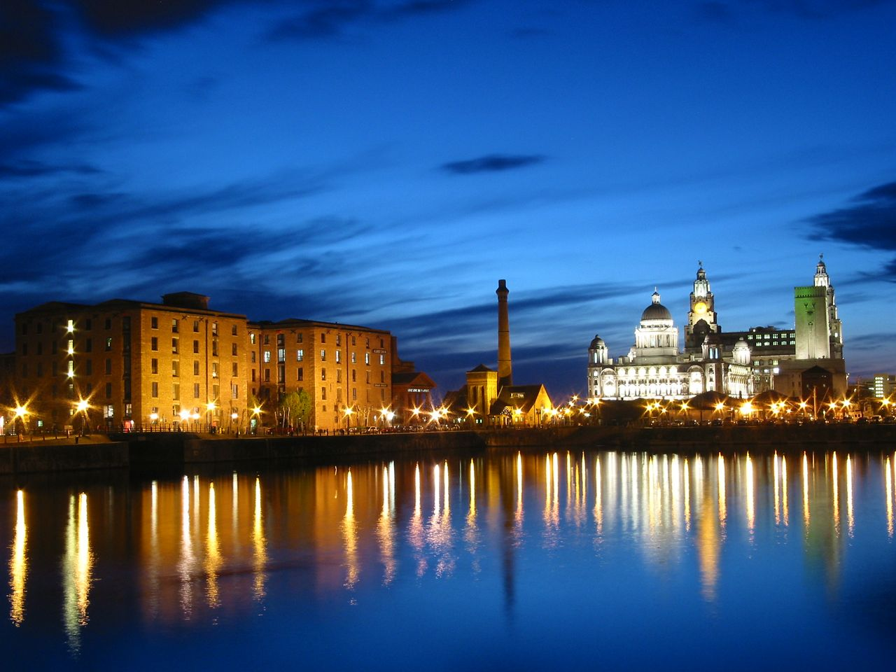 Albert Dock at night